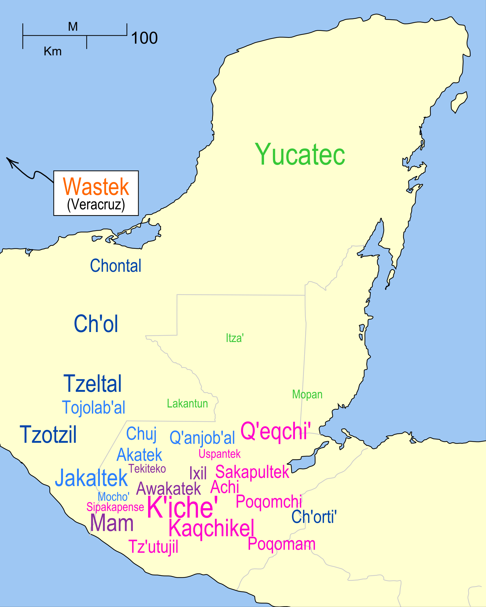 A map showing the present-day locations of the Mayan Languages. The colours of the language names shows closely-related groups. The size of the name shows the relative number of speakers. Largest size = over 500,000 speakers. Large size = over 100,000 speakers. Medium size = over 10,000 speakers. Small size = under 10,000 speakers. Notes: the name colours are the same as used in the genealogy tree (Image:Mayan Language Tree in colour.png). The "source code" -- the original SVG file -- can be obtained at Image:Mayan Language Map.svg, but the SVG editor changes the sizes of the words.